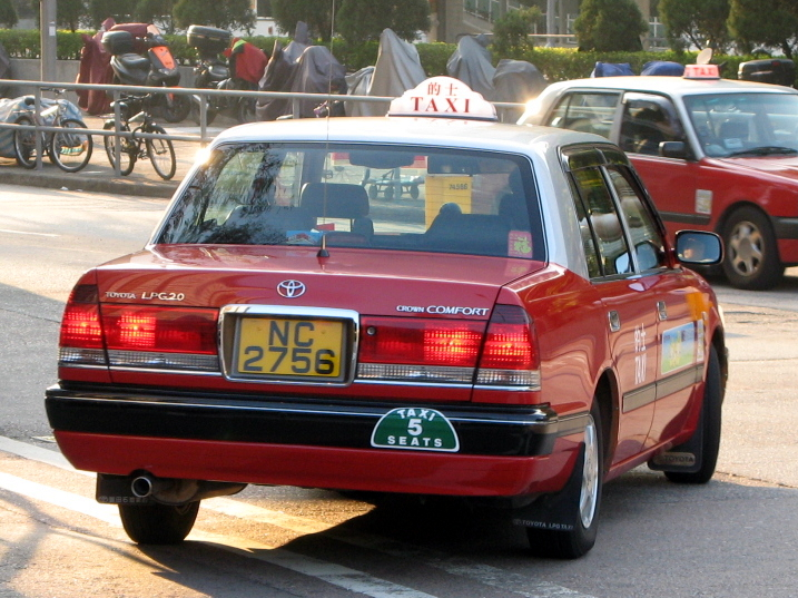 HK Toyota Comfort Red Taxi Version 2008